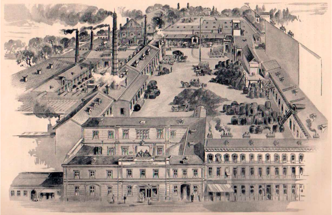 Aerial view of the "Apollo" soap and candles factory in Penzing.